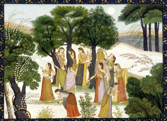 Gopis searching for Krishna, Bhagavata Purana, c1780.(digitally enhanced version) Guler-Kangra region, India. Opaque watercolor and gold on paper.